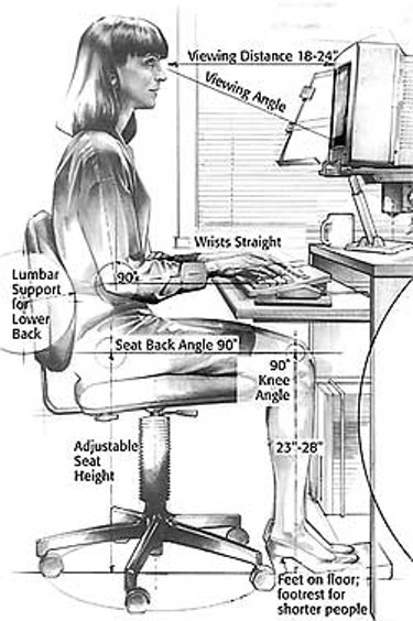 Computer Workstation Variables